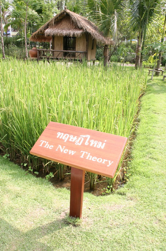 Corporate Garden introduced new theory from the king - Royal Flora Expo 2006, Chiangmai, Thailand